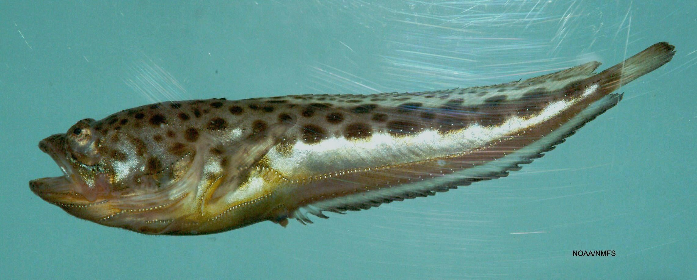 Atlantic midshipman ( Porichthys plectrodon )). Gulf of Mexico.